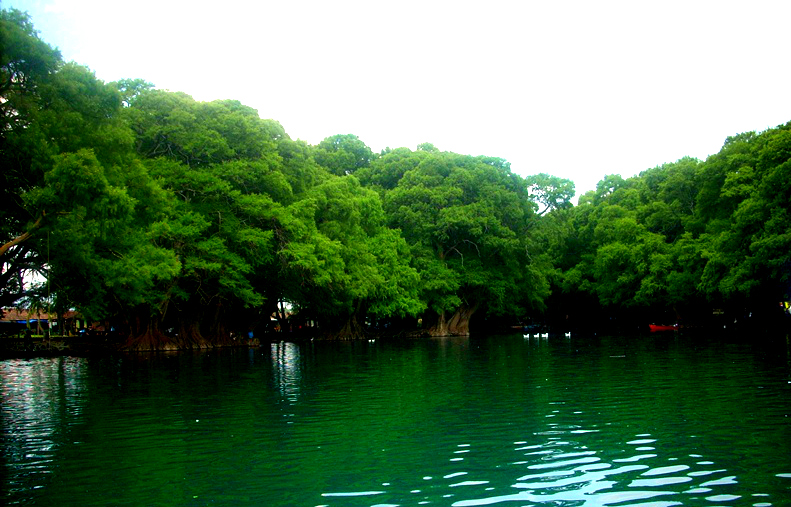 Lake Camécuaro — in Lago de Camécuaro National Park. Located in the municipality of Tangancícuaro, of the state of Michoacán, southwestern México.